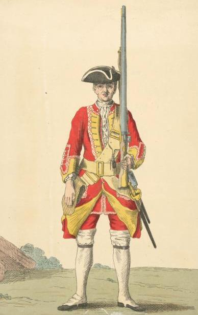 Soldier of the 6th regiment (1742)